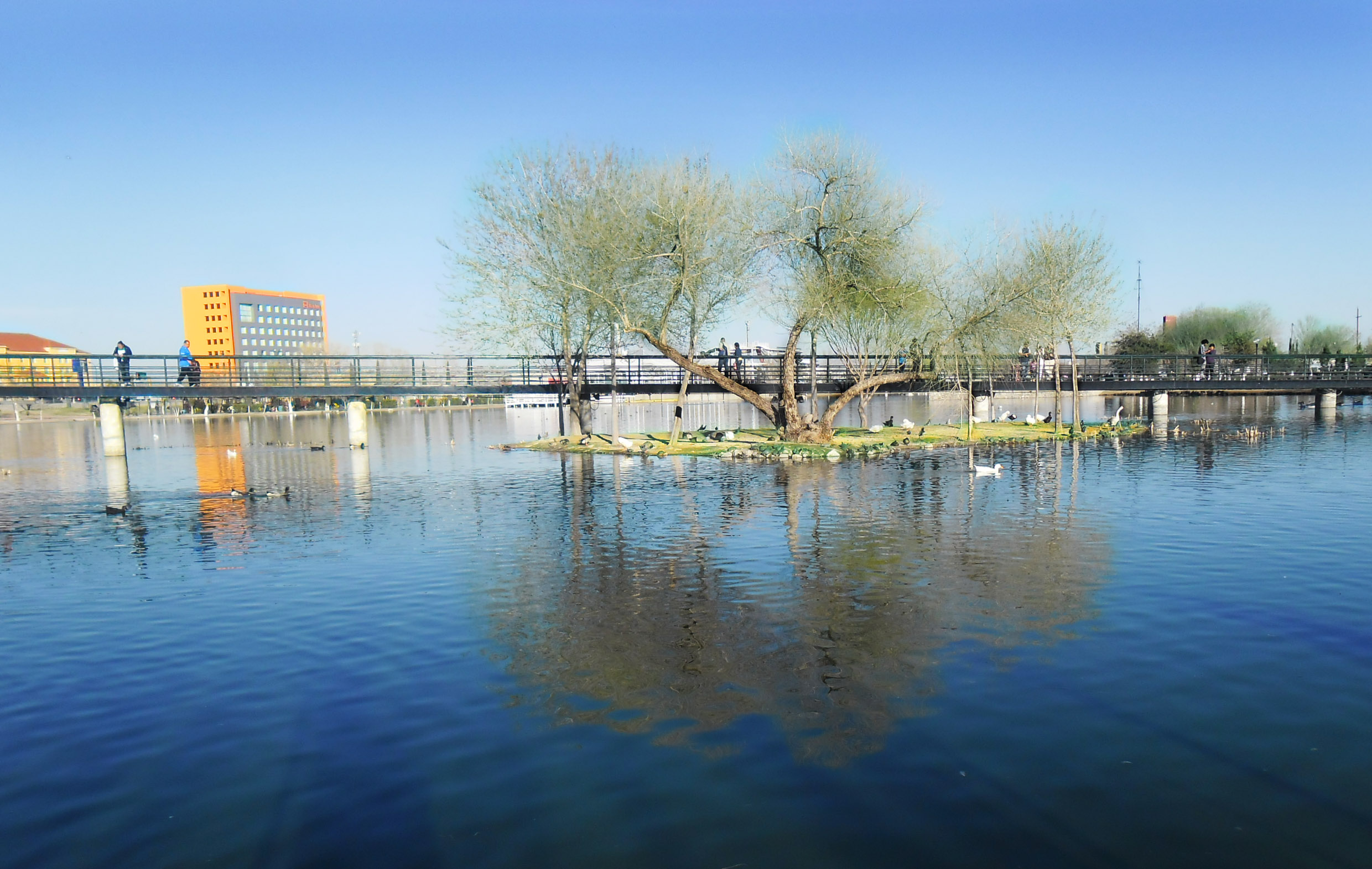 Juarez, mexico